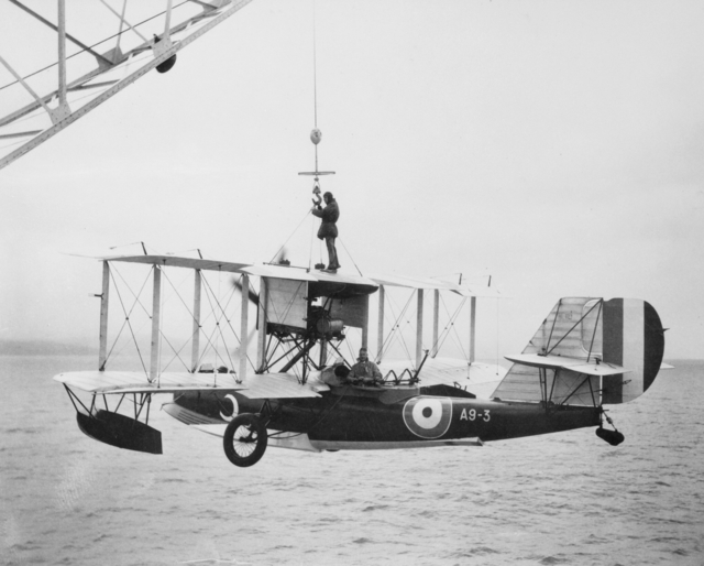 AWM caption : "Australia, 1926-1935. Supermarine Seagull III A9-3 of No. 101 Fleet Co-operation Flight RAAF being hoisted out of the water and aboard the seaplane carrier HMAS Albatross (not in view) by one of the ship's cranes. The amphibious aircraft has just returned from a flight. One of the seaplane's crewmen is riding on its top wing, after having attached the cable of the crane to the aircraft."